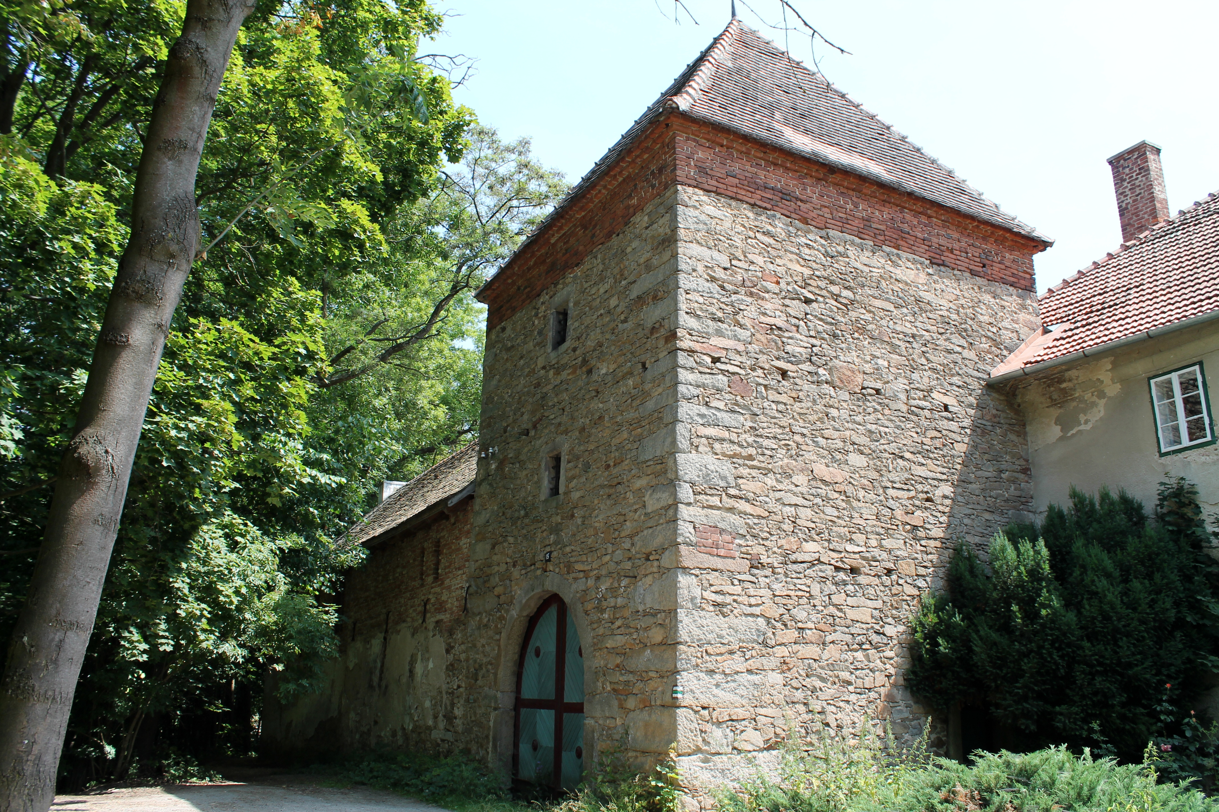 Former fortress, later part of watermill, Černíč, Jihlava District, Czech Republic